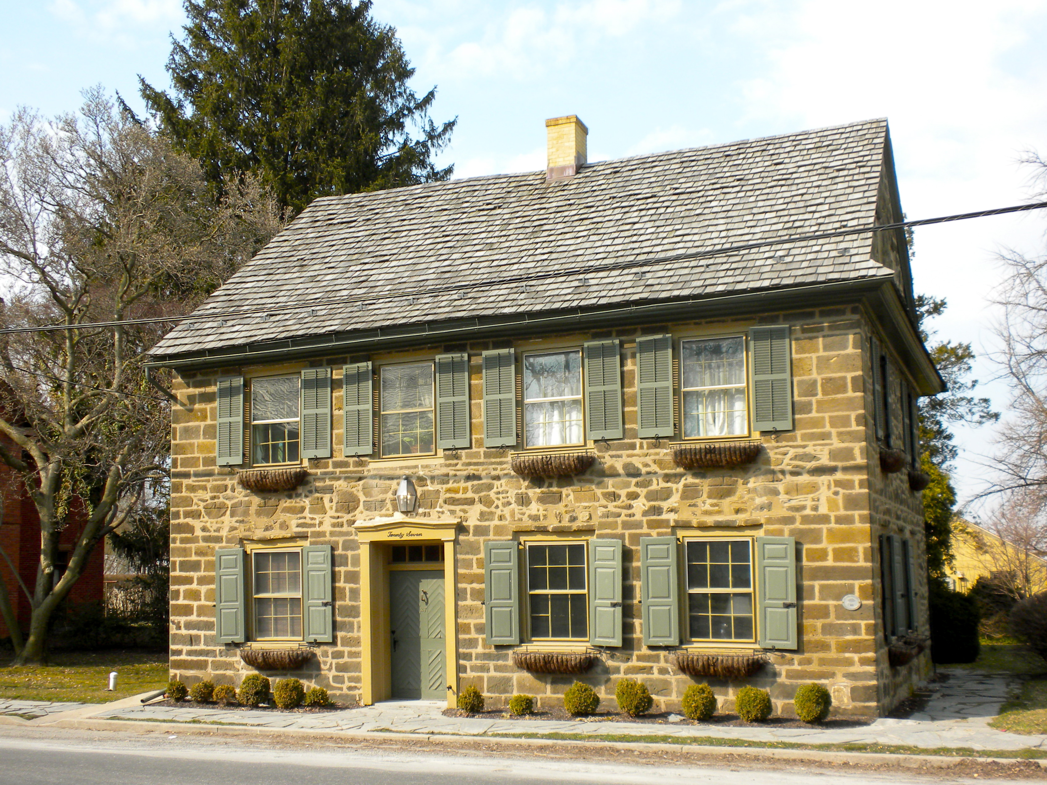 27 East Main street, built 1754, in Strasburg, Pennsylvania. In Strasburg Historical District on NRHP